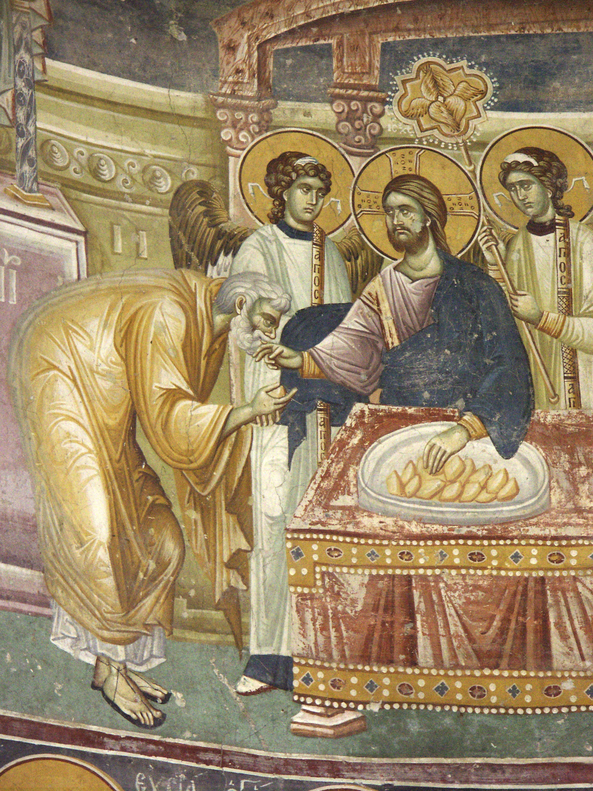 Frescos in St. George Church in Staro Nagoričane, Macedonia